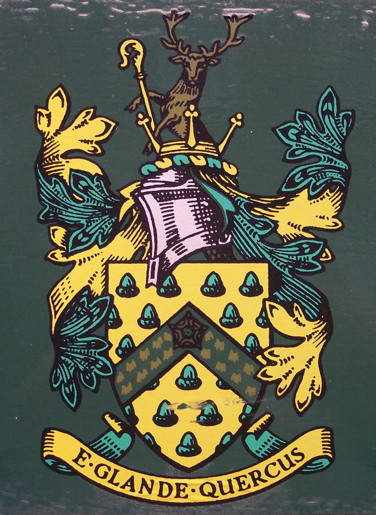 Arms of Wokingham town council (Berkshire, England); as displayed on the Town Hall entrance.